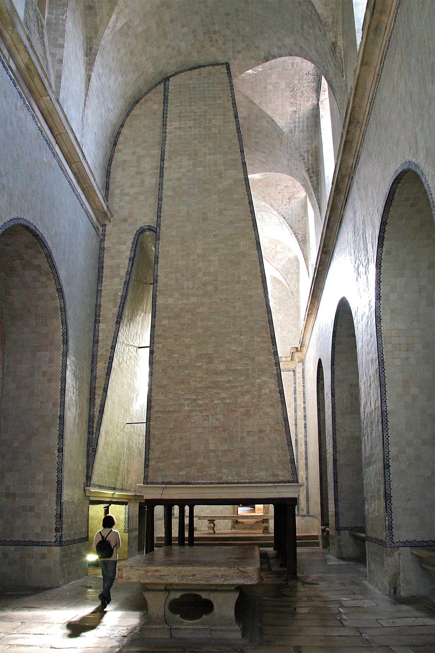 Kitchen chimney in the Alcobaça Monastery, Portugal